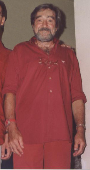 Andrea Brambilla, alias "Zuzzurro", after a show in Seccagrande, Ribera(Ag)